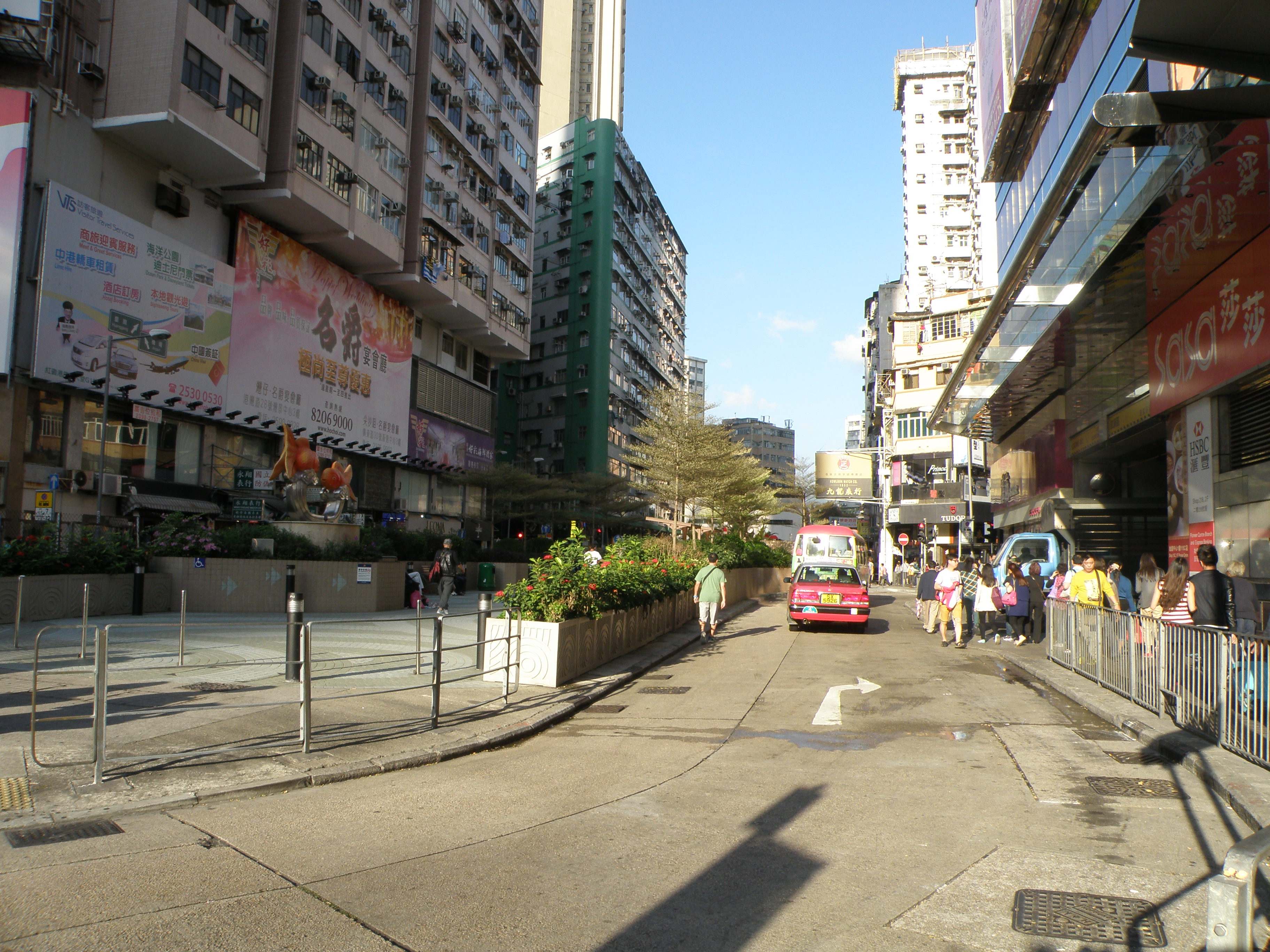 Nullah Road in Prince Edward, Hong Kong.